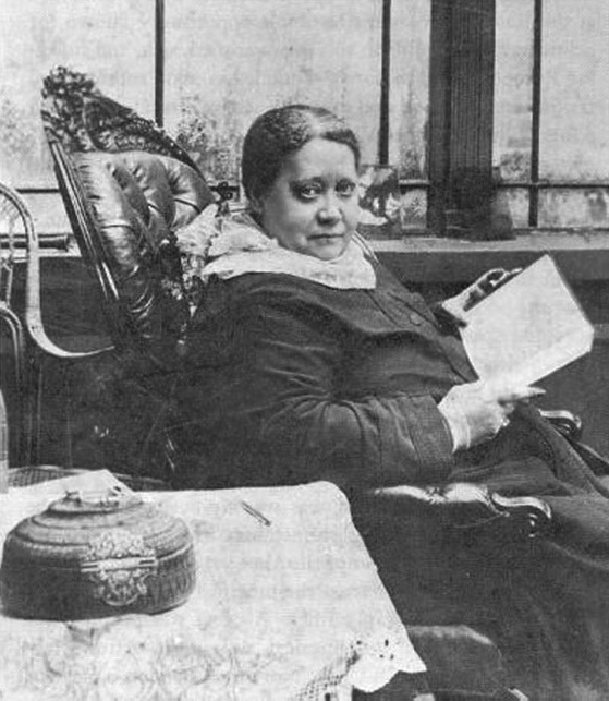 Helena Petrovna Blavatsky